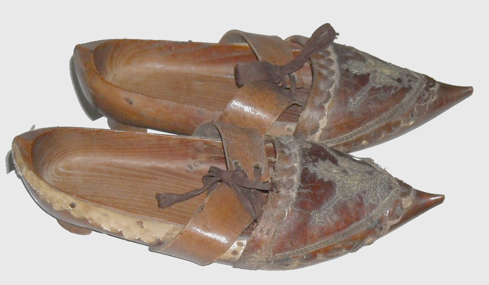 Clogs dating of French First Empire. Clogs museum of Porcheresse, Belgium